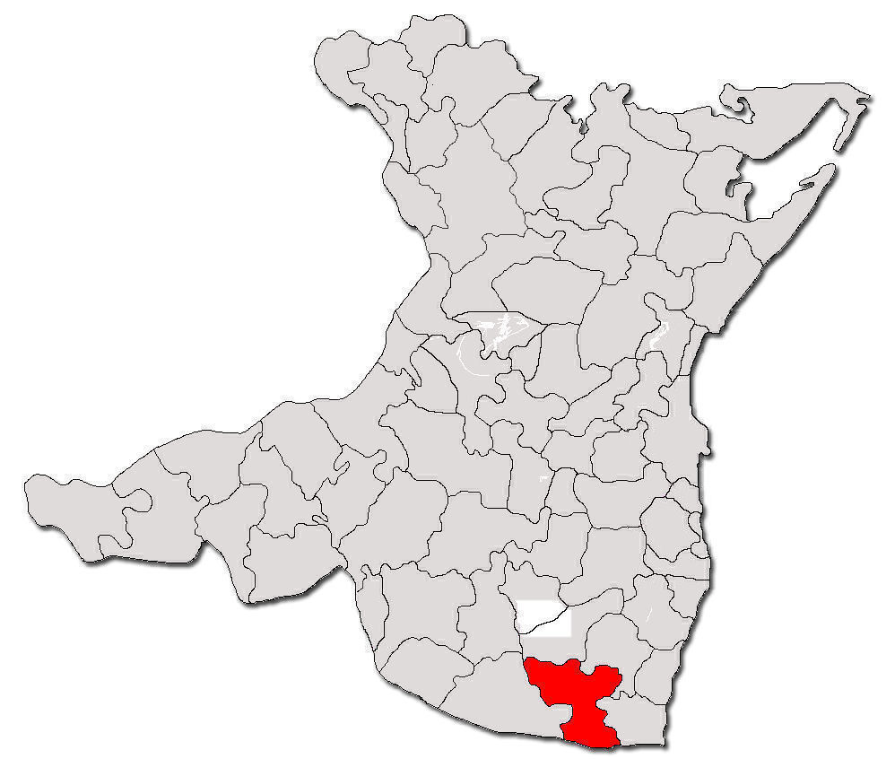 Contour map of commune Albesti